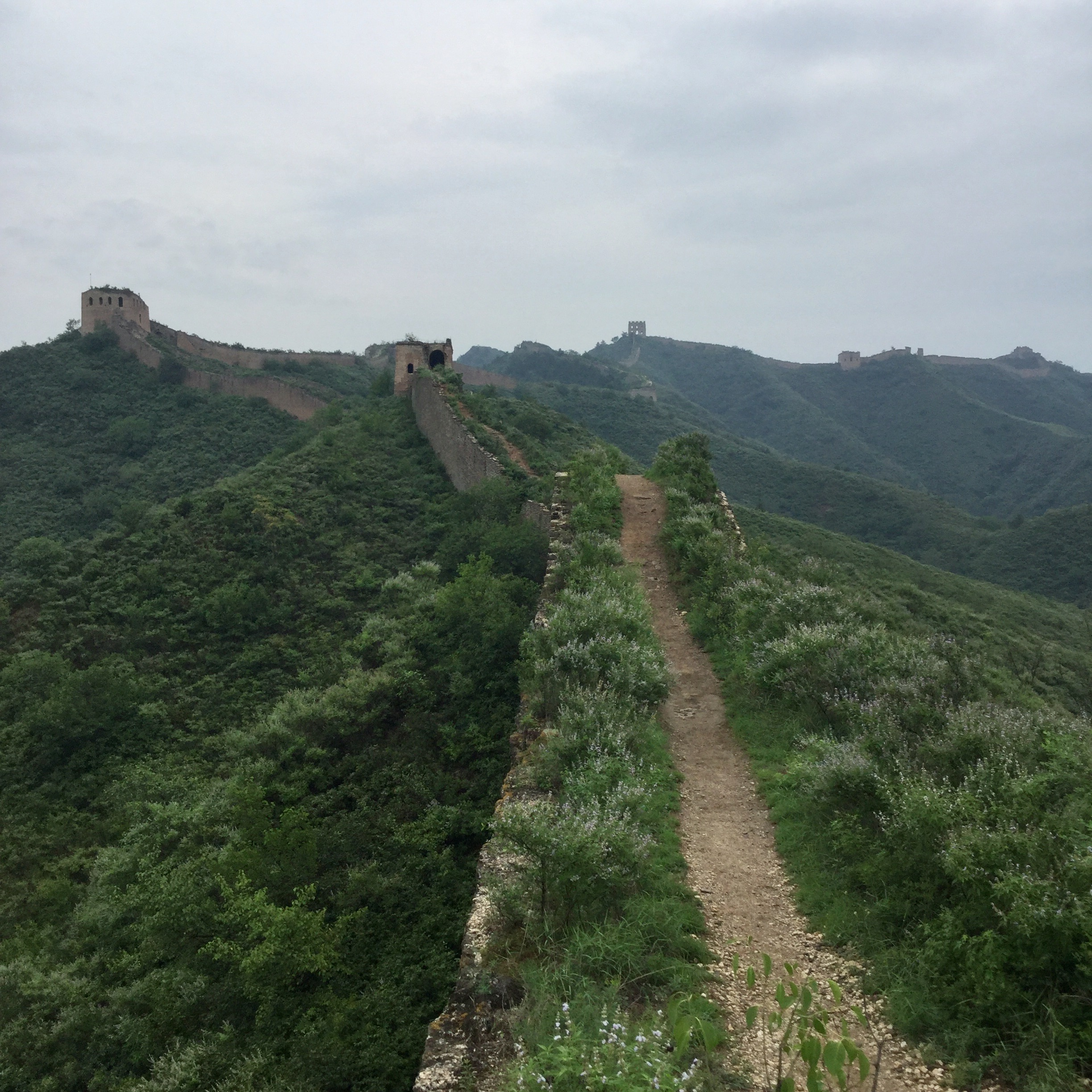 China, The great wall